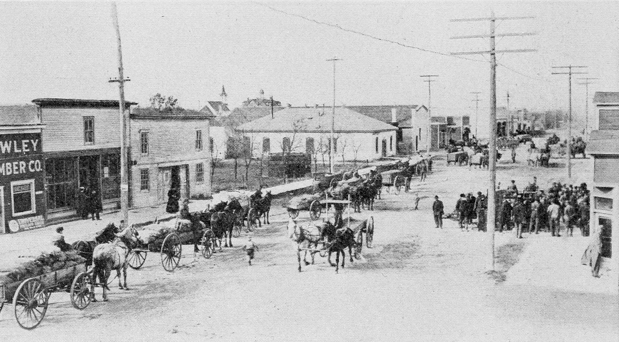 Bringing harvested potatoes into Hawley, Minesota in the fall. Title: Clay County Identifier: claycounty00meek Year: 1916 (1910s) Authors: Meeker, D. W. [from old catalog] Subjects: Agriculture Publisher: Moorhead, Minn. , D. W. Meeker Text Appearing Before Image: 100 CLAY COUNTY ILLUSTRATED Text Appearing After Image: Bringing in the Potatoes—Any Day During the Fall—Hawley three acres and planted them in the same field with the others, the only difference in treatment being seed se- lection. The three acres yielded 183 bushels per acre, while the field pro- duced only 72 bushels per acre. Hawley Hawley is the oldest village in the eastern part of the county and is one of the best primary markets in the state. It is located on the main line of the Northern Pacific and has direct